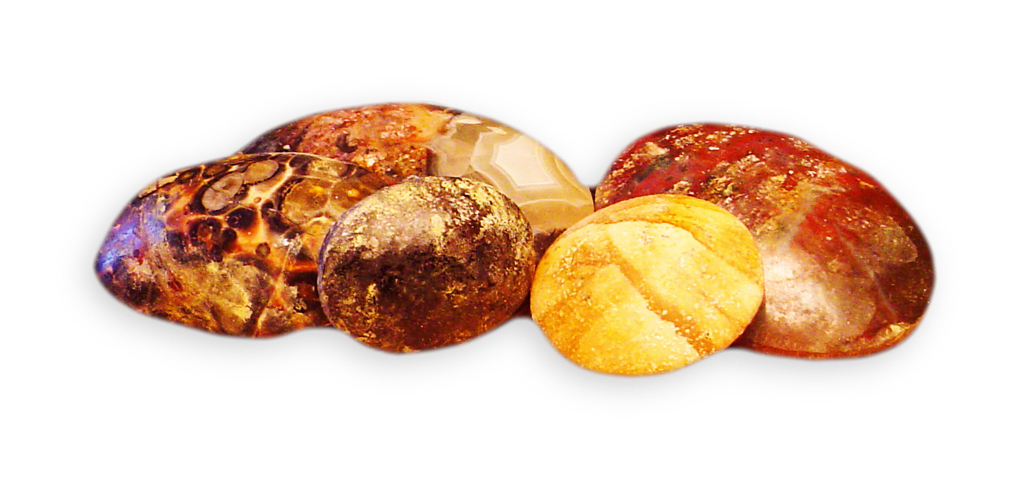 These mineral images are free to use how you wish.